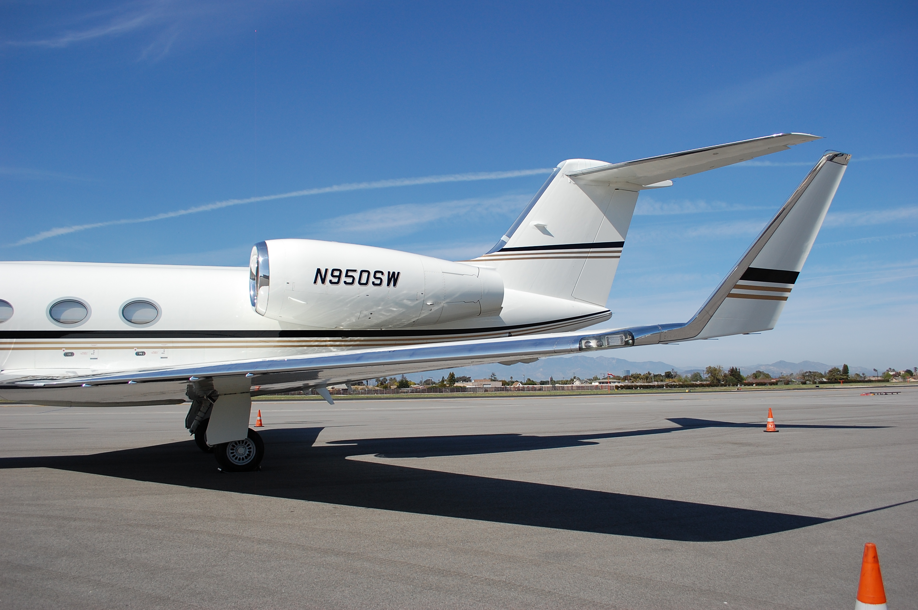 A Gulfstream G450 belonging to the Safeway Corporation is seen on the tarmac at Oxnard Airport (KOXR).